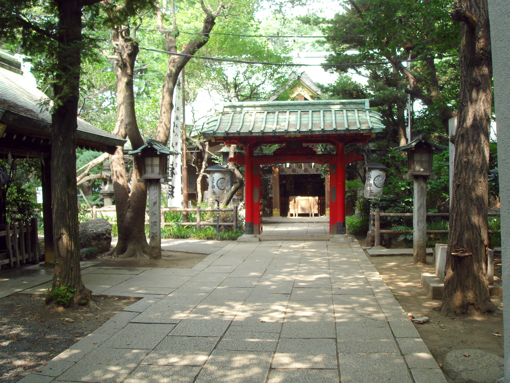 the Atago shrine